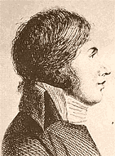 French chemist and mineralogist Hippolyte-Victor Collet-Descotils (1773-1815)